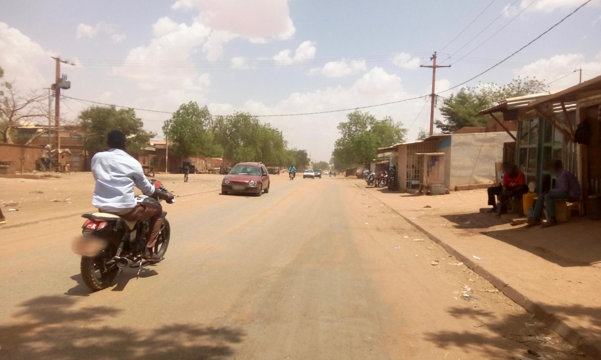 Avenue Kaocen in Boukoki II, Niamey.